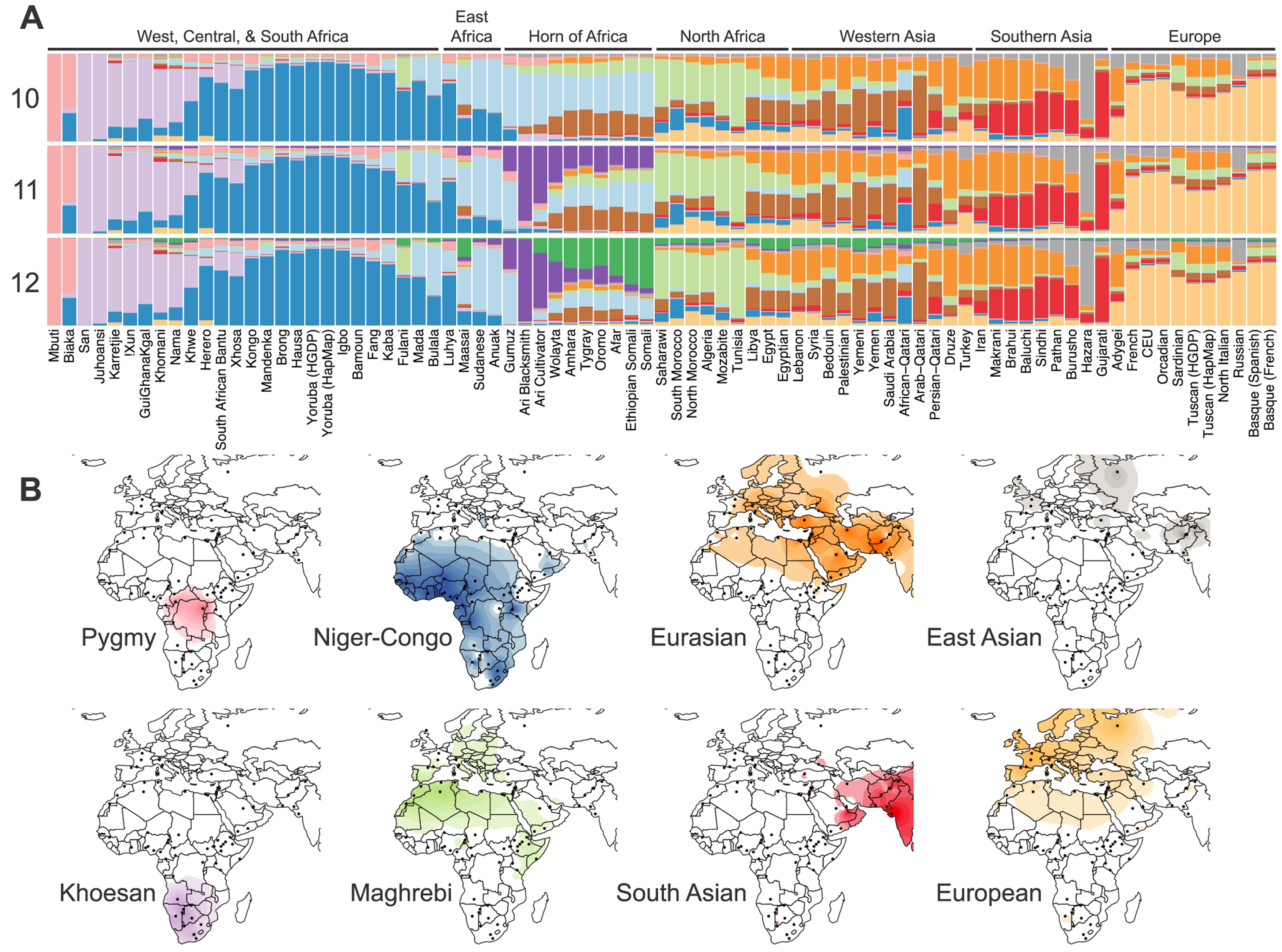 Population structure of Horn of Africa (HOA: Ethiopia, Eritrea, Djibouti, and Somalia) populations in a broad context. ADMIXTURE analysis of 2,194 individuals from 81 populations for 16,420 SNPs reveals both well-established and novel ancestry components in HOA populations. We used a cross-validation procedure to estimate the best value for the parameter for the number of assigned ancestral populations (K) and found that values from 9 to 14 had the lowest and similar cross-validation errors. (A) The differences in inferred ancestry from K = 9–14 are most pronounced in the HOA for K = 10–12, where two ancestry components that are largely restricted to the HOA appear (the dark purple and dark green components). (B) Surface interpolation of the geographic distribution of eight inferred ancestry components that are relatively unchanging and common to the ADMIXTURE results from K = 10–12.